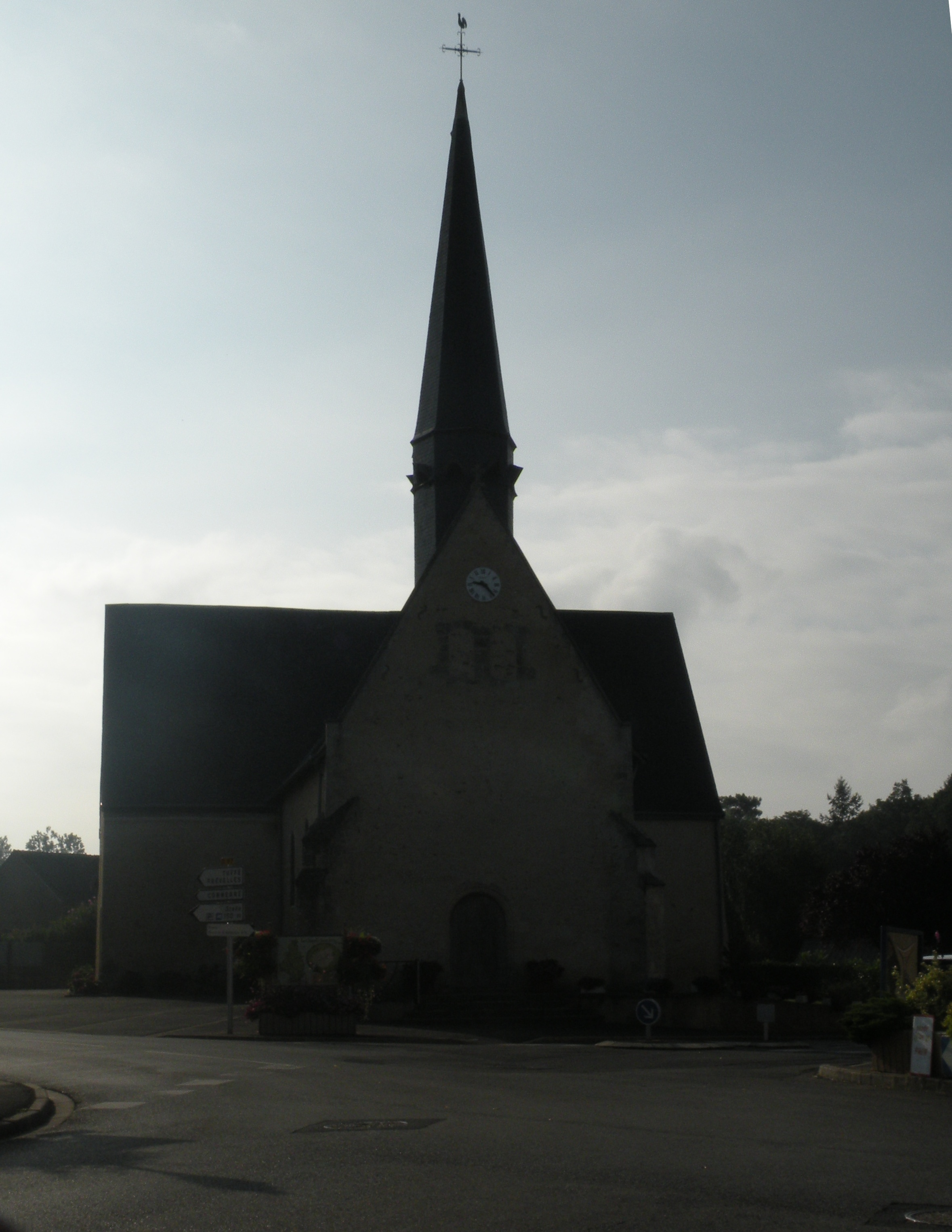 Church of La Chapelle-Saint-Rémy.